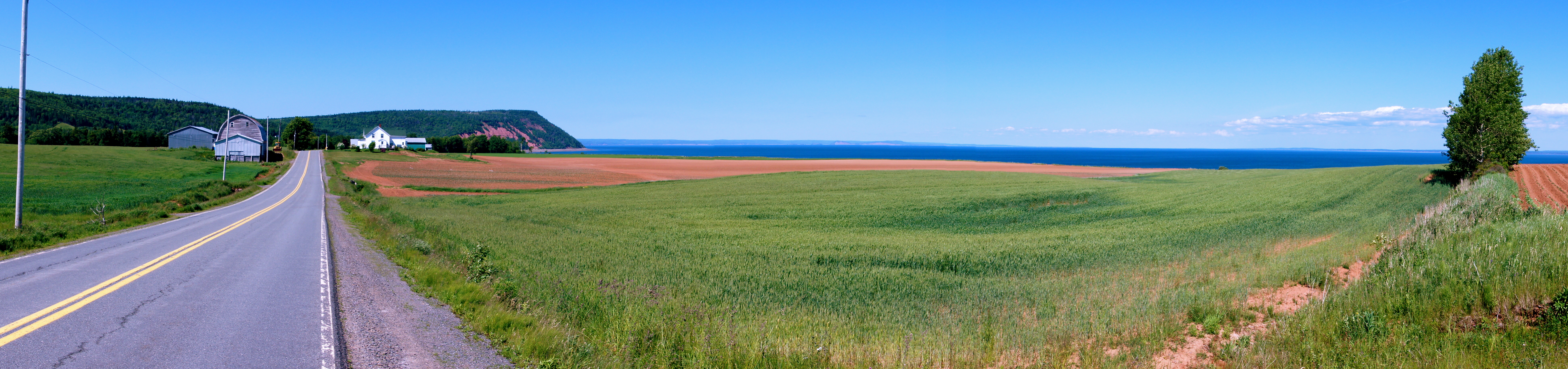 Eastern End. Road leading to Blomidon Provincial Park with the Minas Basis in view to the right.